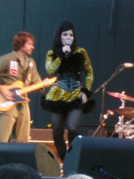 Josie Cotton performing at LA Pride